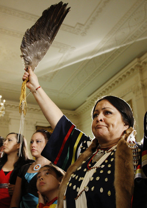 Family members of U.S. Army Master Sgt. Woodrow Wilson Keeble attend the presentation of the Medal of Honor, posthumously, in honor of Master Sgt. Keeble’s gallantry during his service in the Korean War, presented by President George W. Bush Monday, March 3, 2008 in the East Room of the White House. Keeble is the first full-blooded Sioux Indian to receive the Medal of Honor.